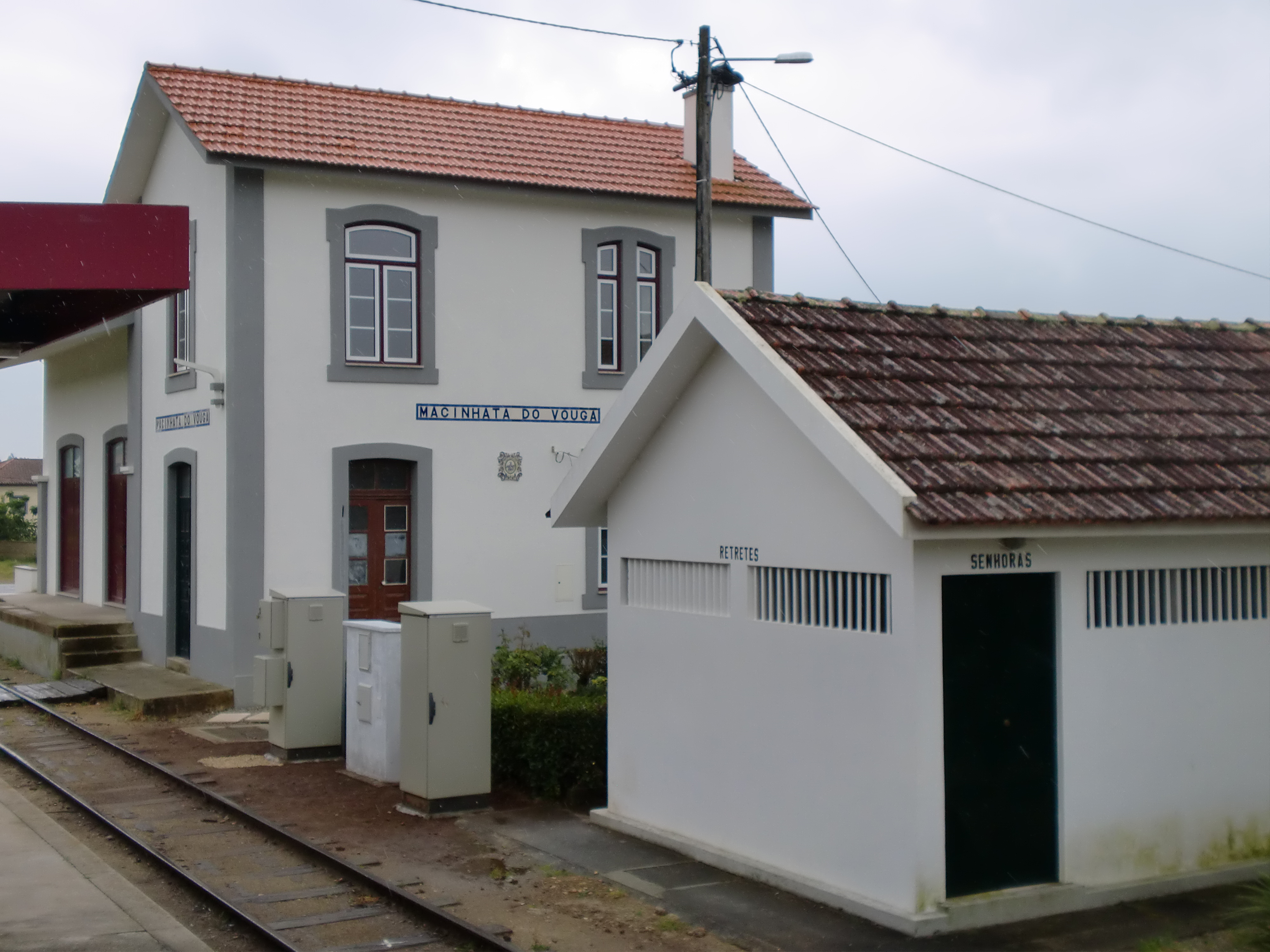 Macinhata station